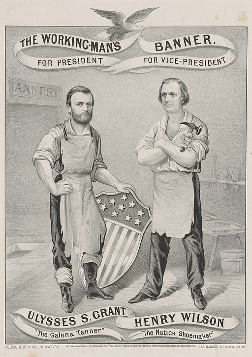 Ulysses Grant Henry Wilson campaign poster 1872